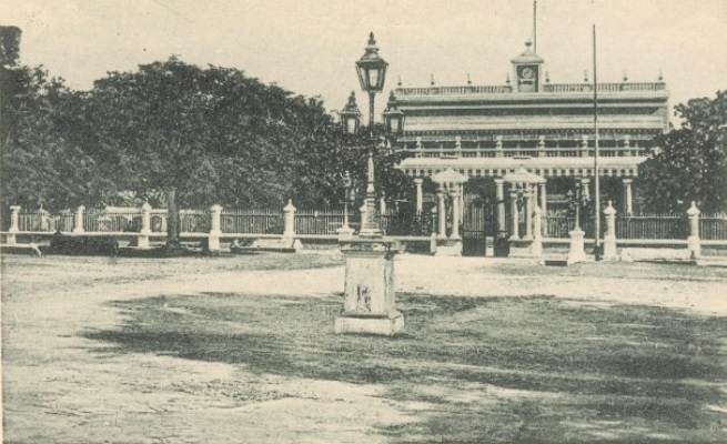 Government House (l'Hôtel de l'Administrateur). With the exception of Pondicherry, each settlement of French India was headed by an Administrateur under the authority of the Governor (who also acted as the administrator of Pondicherry). Postcard from 1910-1920.